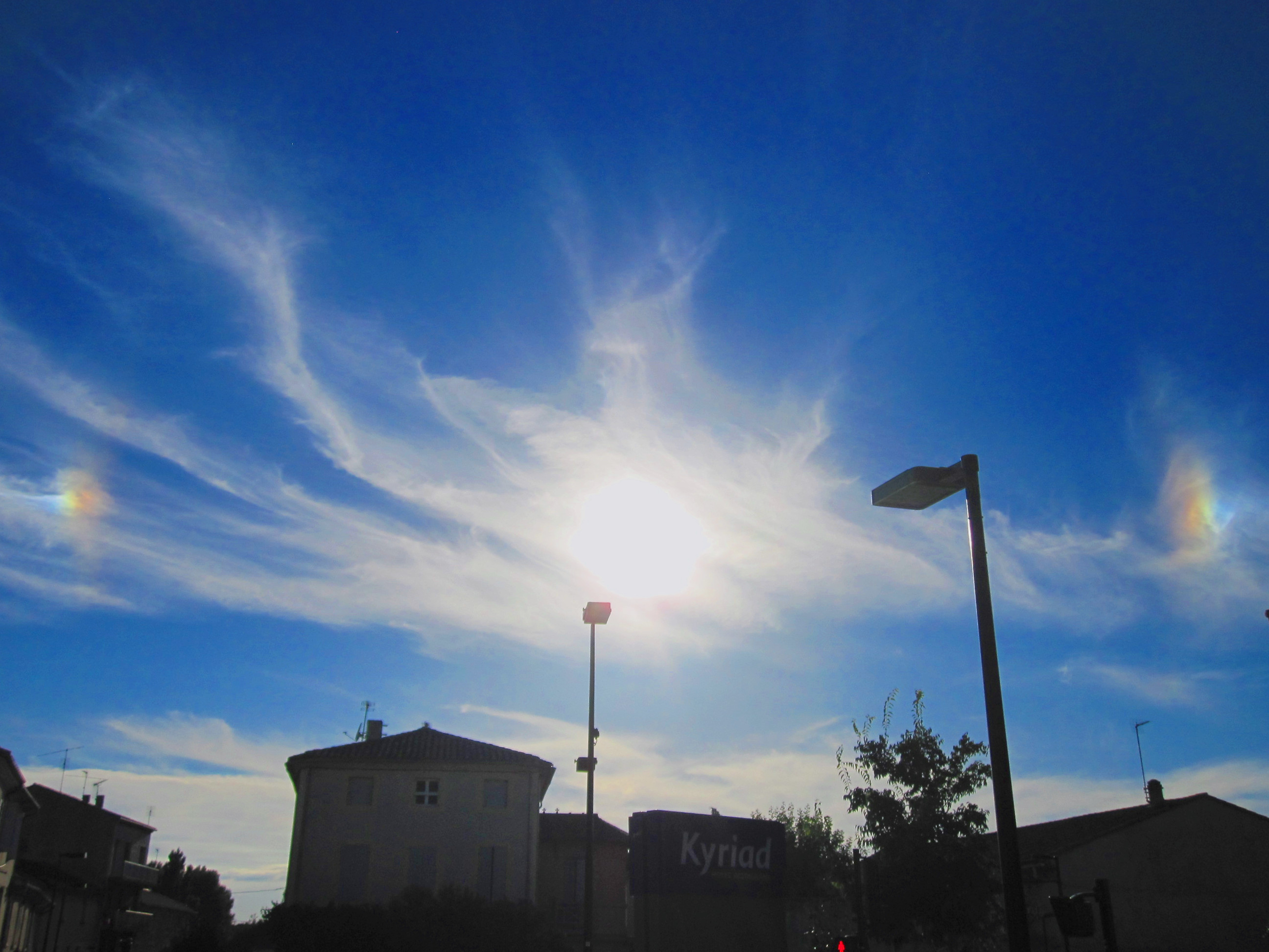 Sundogs, Parhelia; early evening in Orange (South of France)